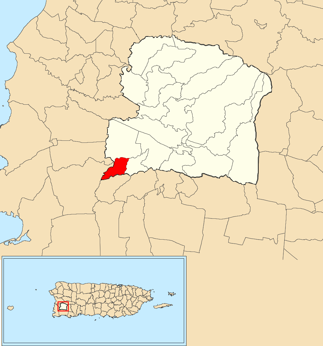 Tuna, San Germán, Puerto Rico locator map